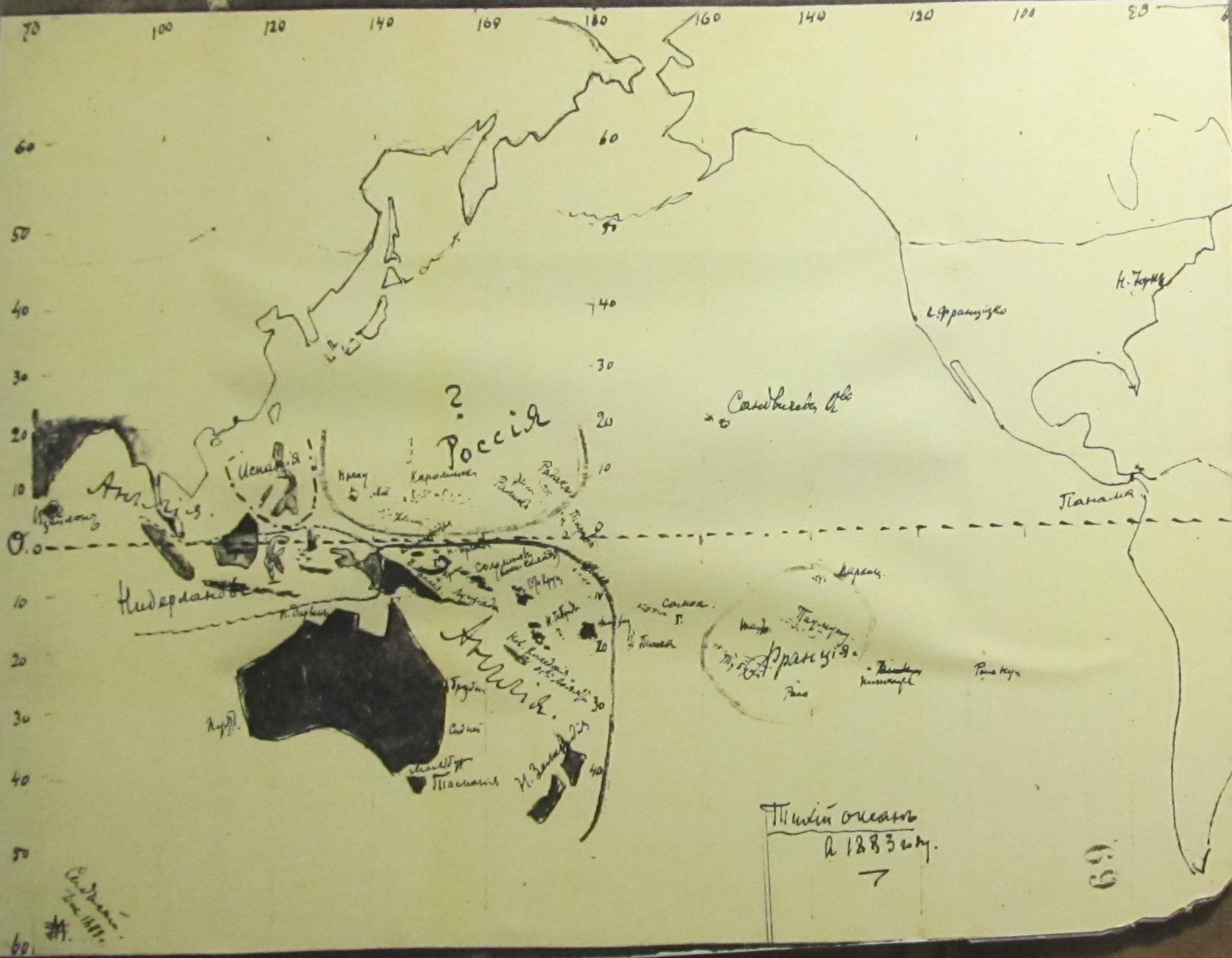 Miklouho-Maclay Oceania Map DEC 1883